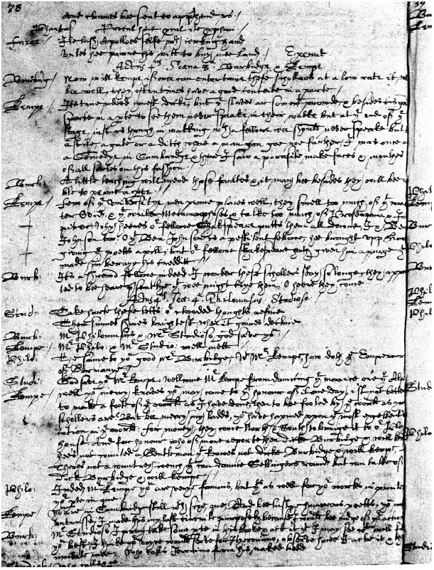 Manuscript of Parnassus play with allusion to Shakespeare: ""Few of the university men pen plays well, they smell too much of that writer Ovid, and that writer Metamorphoses, and talk too much of Proserpina and Jupiter. Why here's our fellow Shakespeare puts them all down, I and Ben Jonson too."